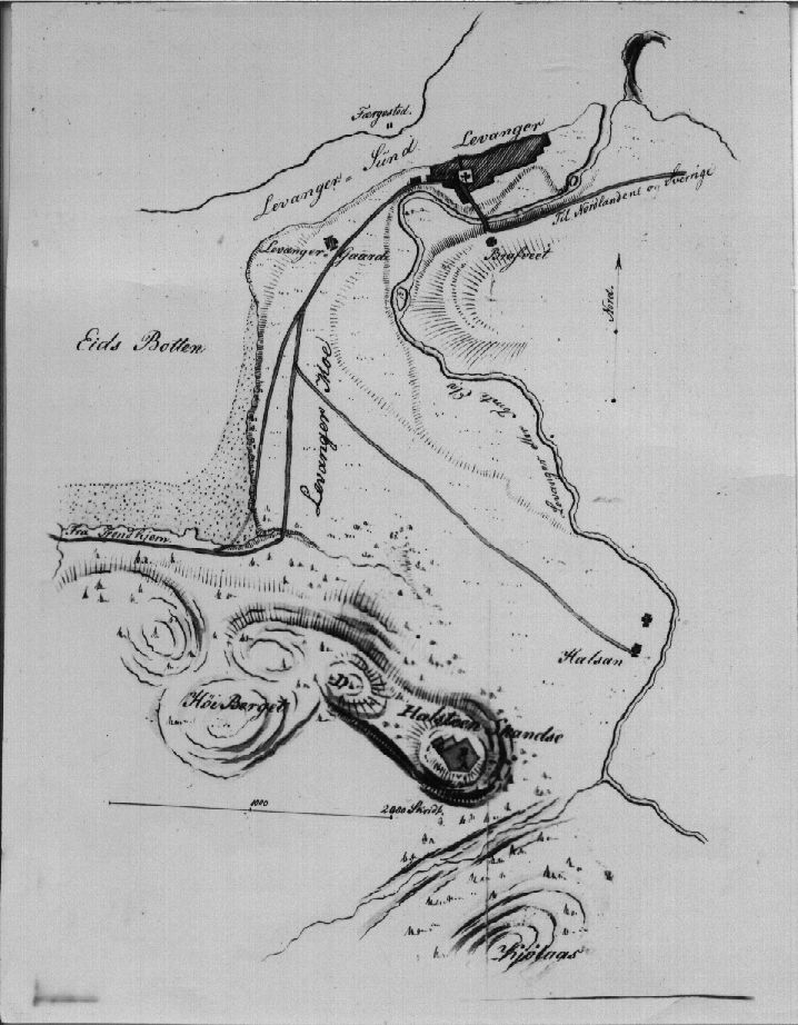 Map of the Iron Age hill fort of Halssteinen in Levanger with the surrounding area.